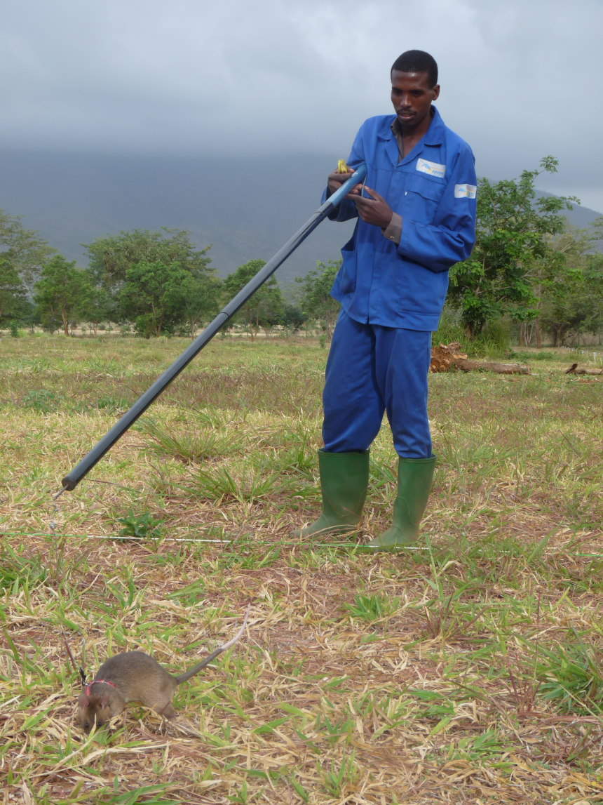 HeroRAT finds landmine in training field in Morogoro, Tanzania